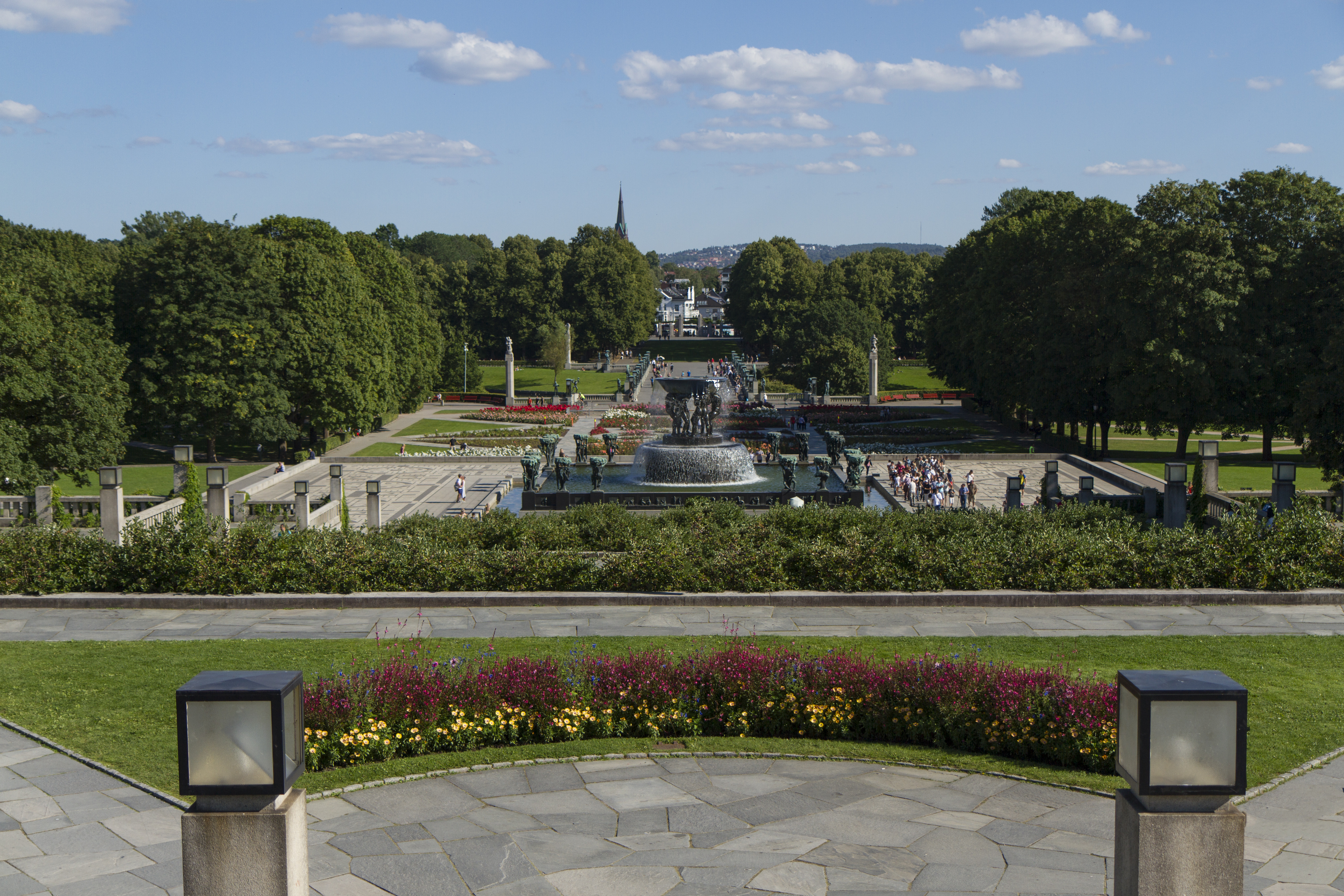 Park Frogner in Oslo